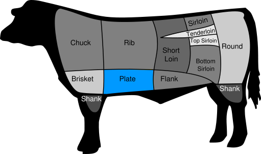 uploaded for an infobox